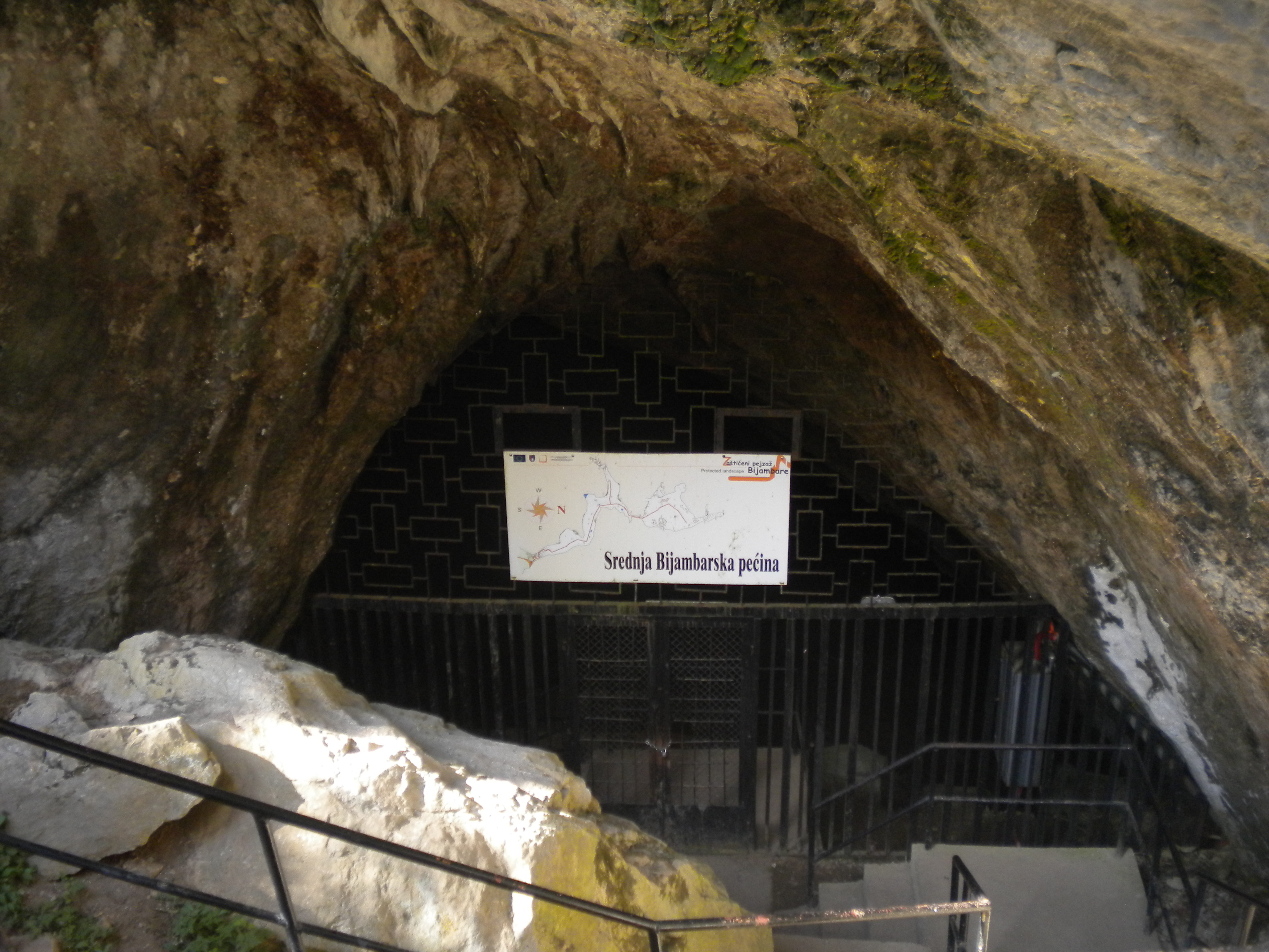 Cave Bijambare Middl